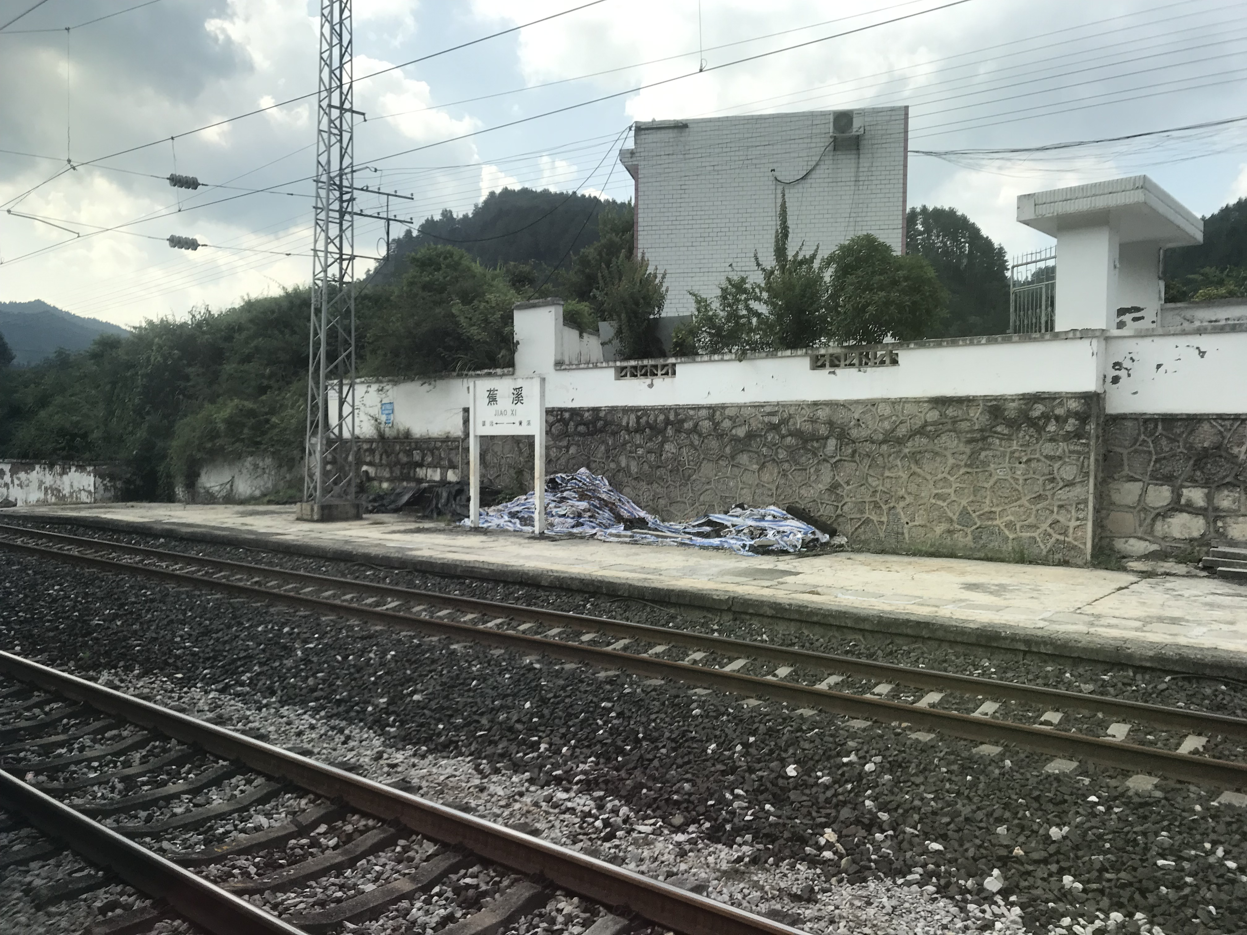 201908 Nameboard of Jiaoxi Station